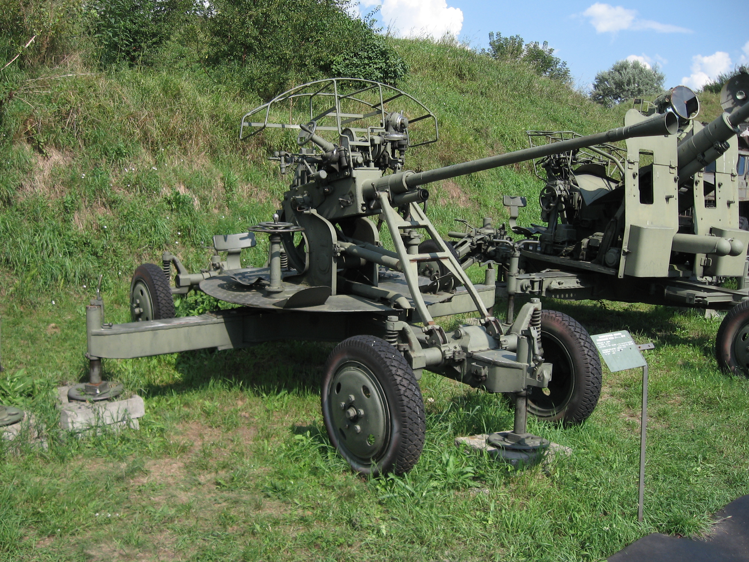 61-K anti-aircraft gun at the Muzeum Polskiej Techniki Wojskowej in Warsaw.